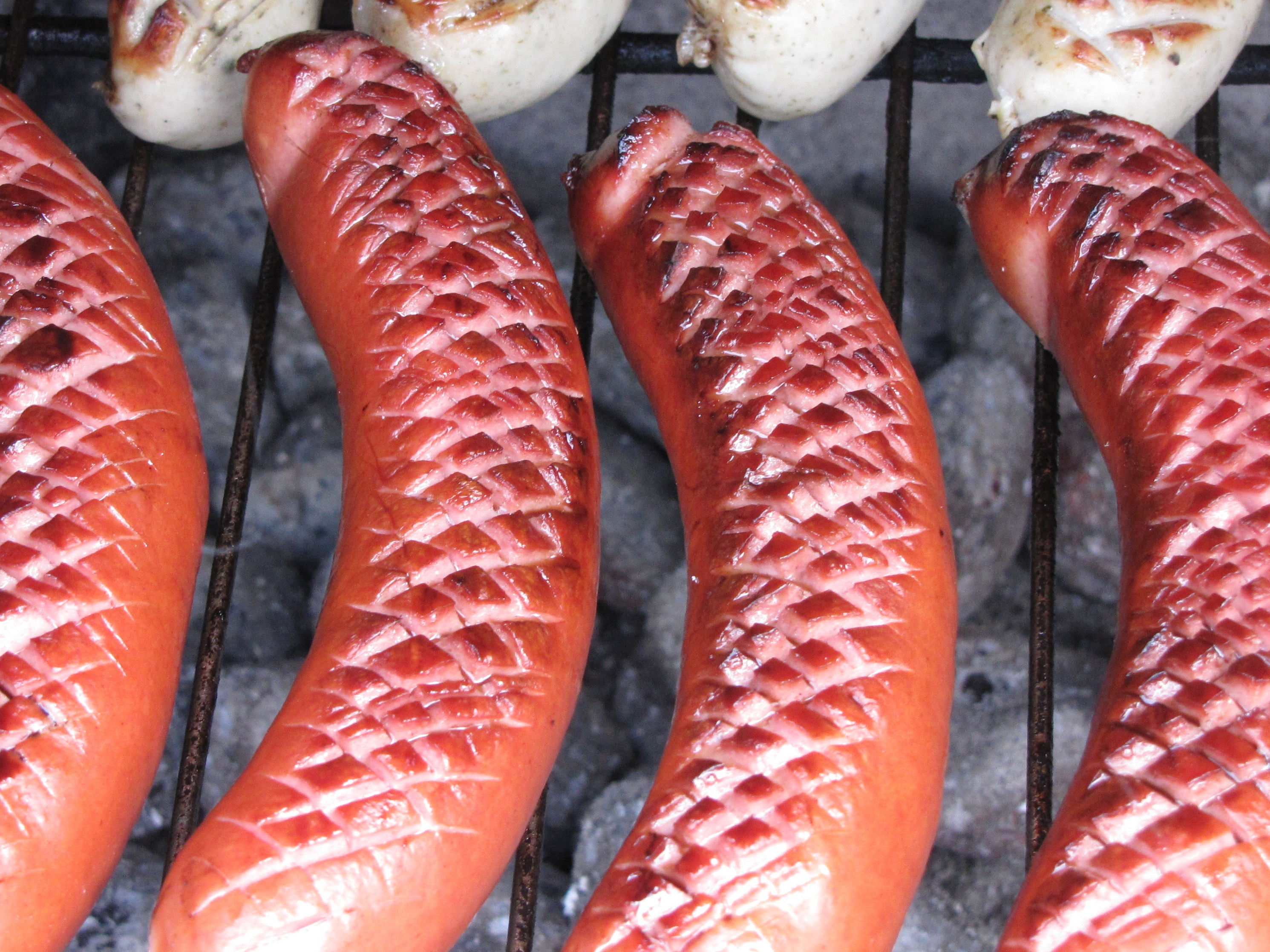 Beef sausage from Frankfurt/Hessia/Germany on grill